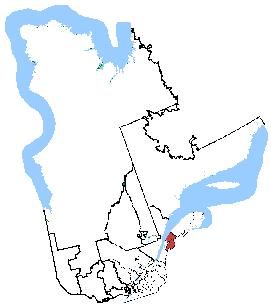 Map of Rimouski-Neigette—Témiscouata—Les Basques